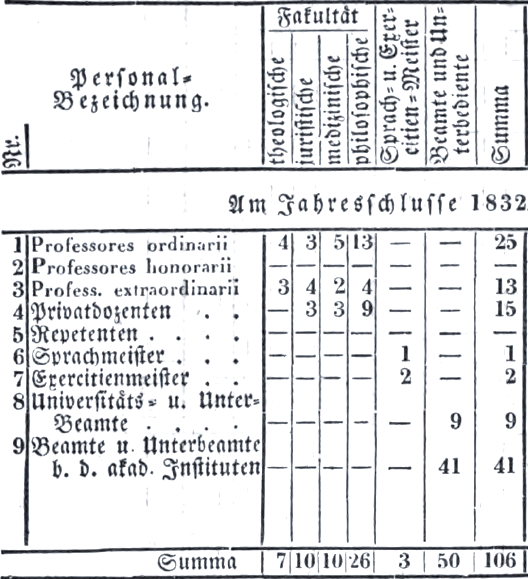 Statistics on academical personal in the 4 faculties of the Albertus-University Königsberg in 1832.